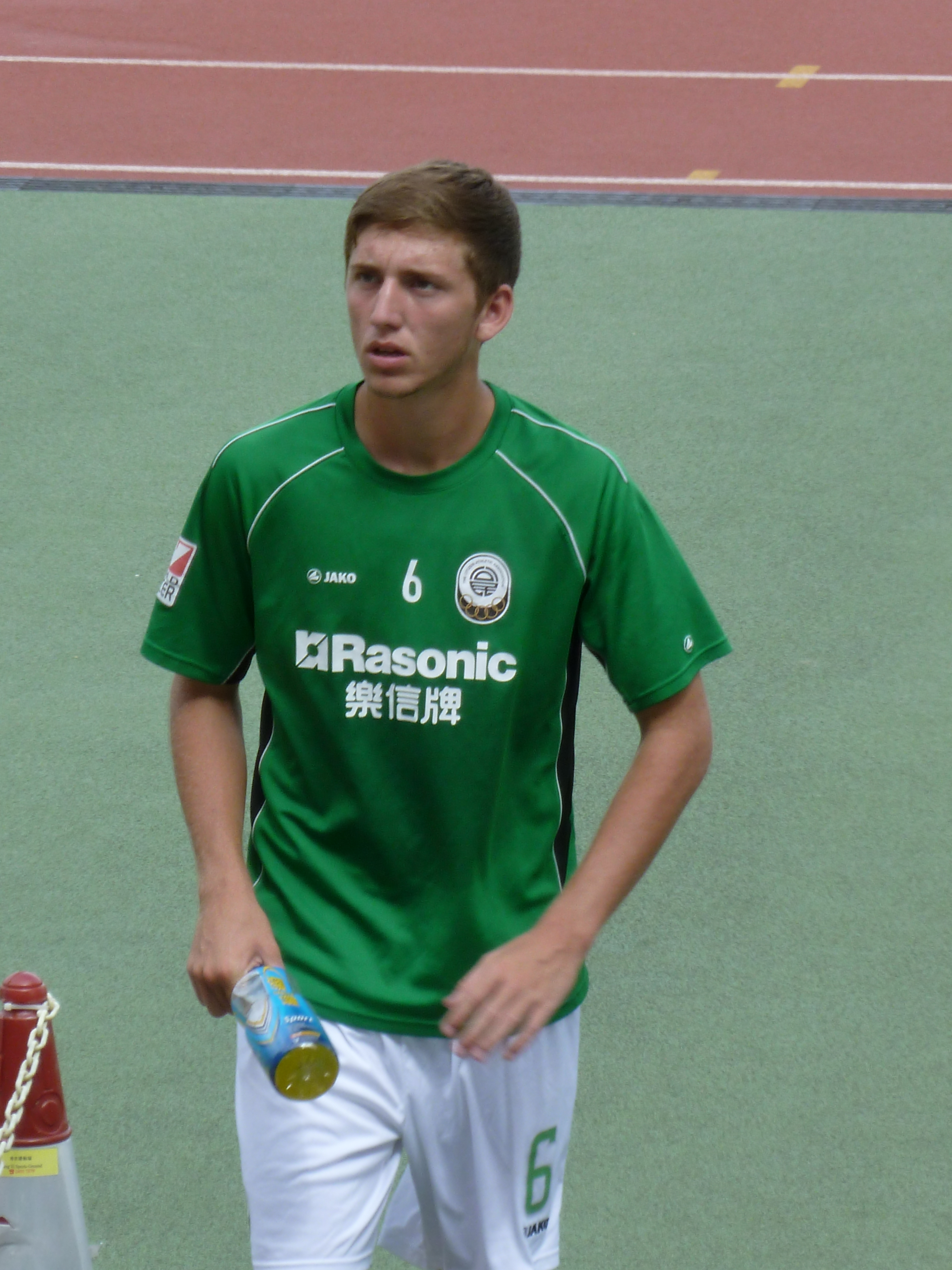 Toby Philip Down (14 Sept 2013, Hong Kong First Division League, Sun Hei vs Citizen, Tsing Yi Sports Ground) 中文（香港）: 唐道碧 (14 Sept 2013, 香港甲組足球聯賽, 晨曦 vs 公民, 青衣運動場)